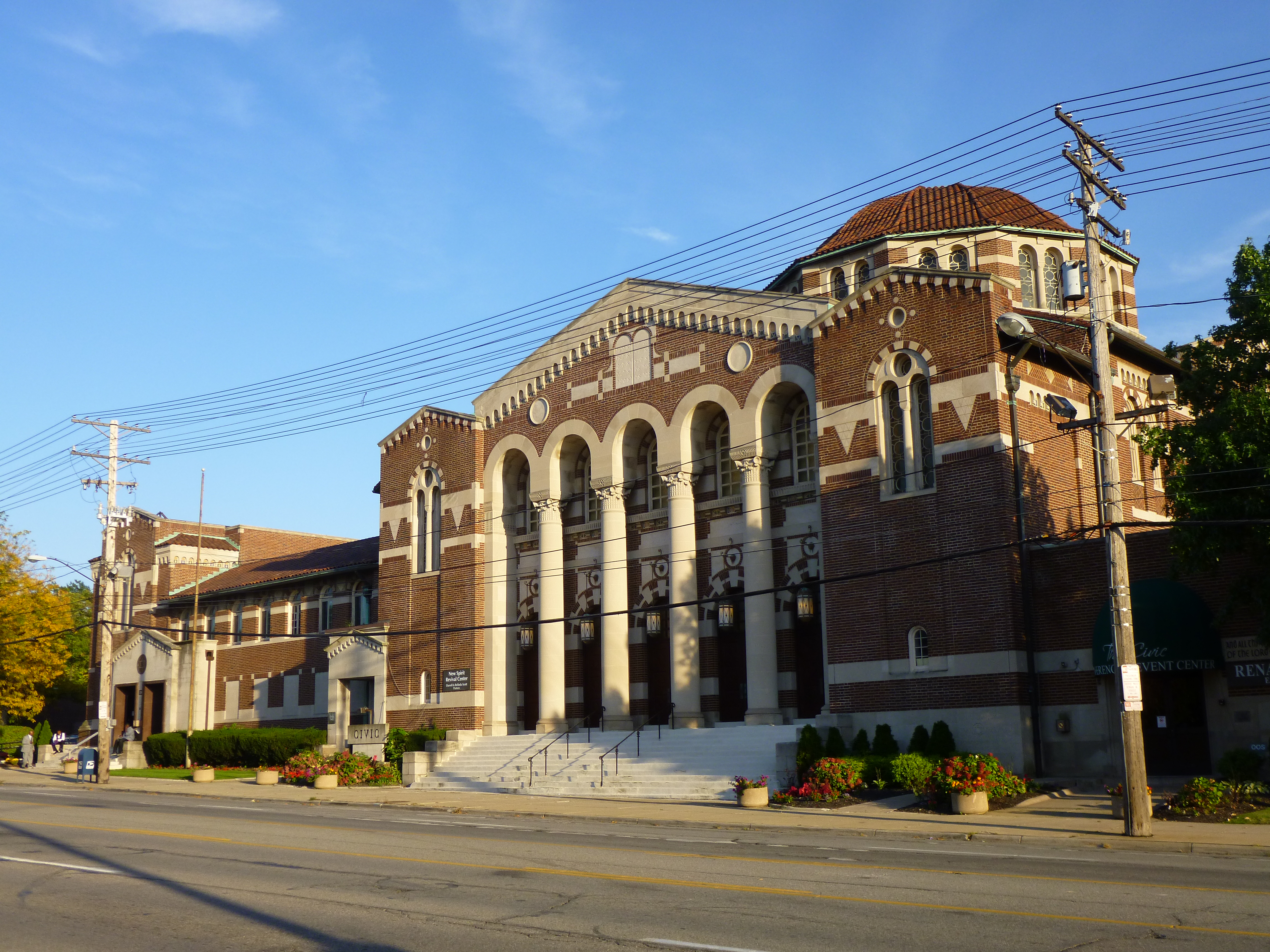 Temple on the Heights, 3130 Mayfield Rd. Cleveland Heights